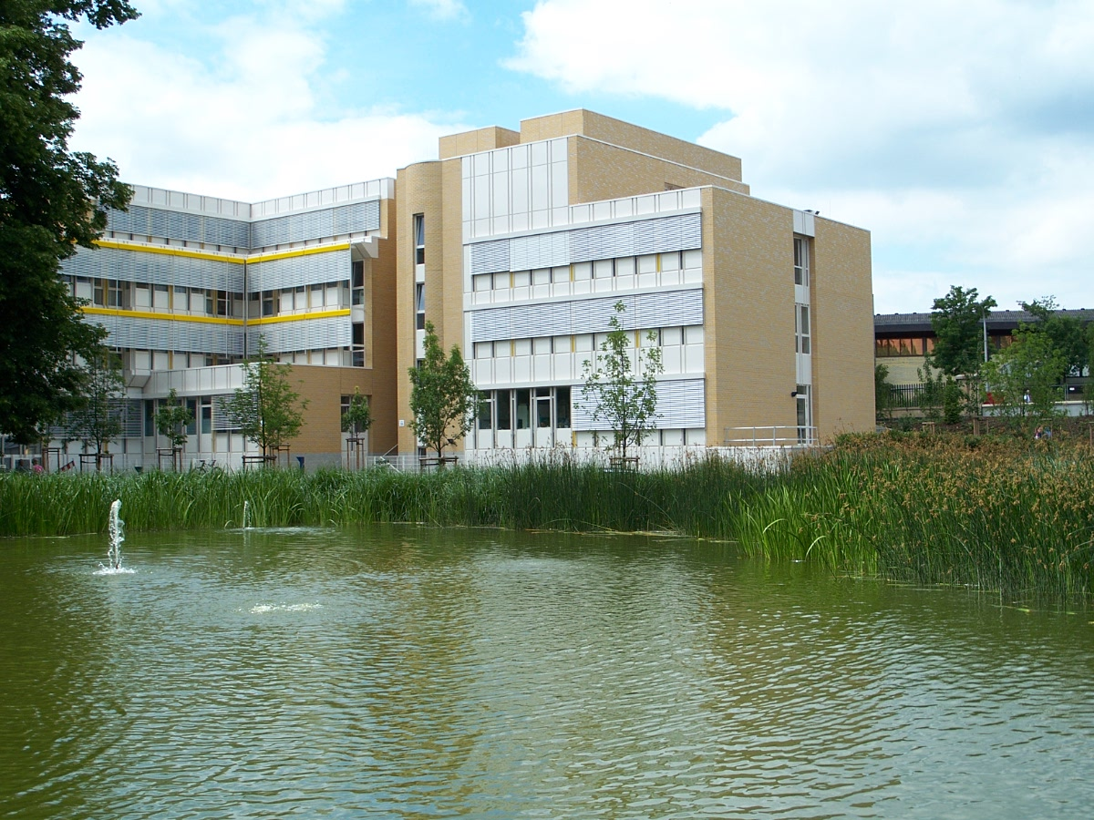 University Hospital Mannheim, Park and new Clinic of Dermatology